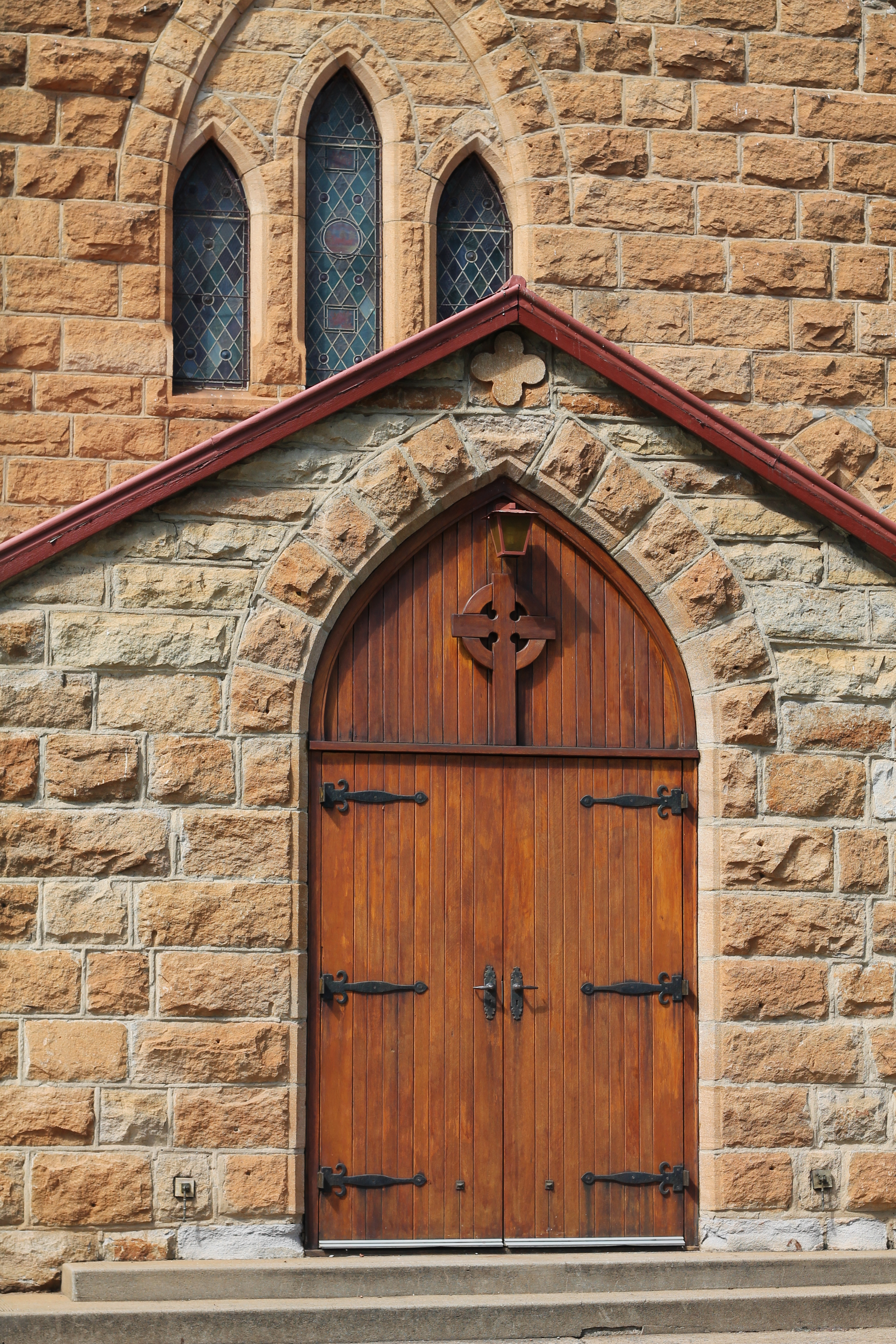 Dundee Trinity South Africa Cnr Beaconsfield & King Edwards Streets Dundee